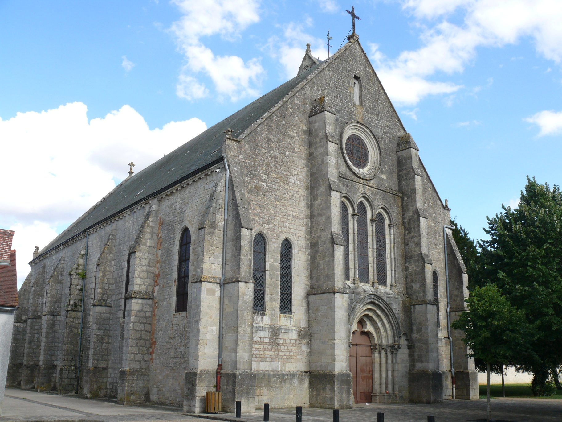 Saint-Loup's church of Sermaises (Loiret, Centre, France).